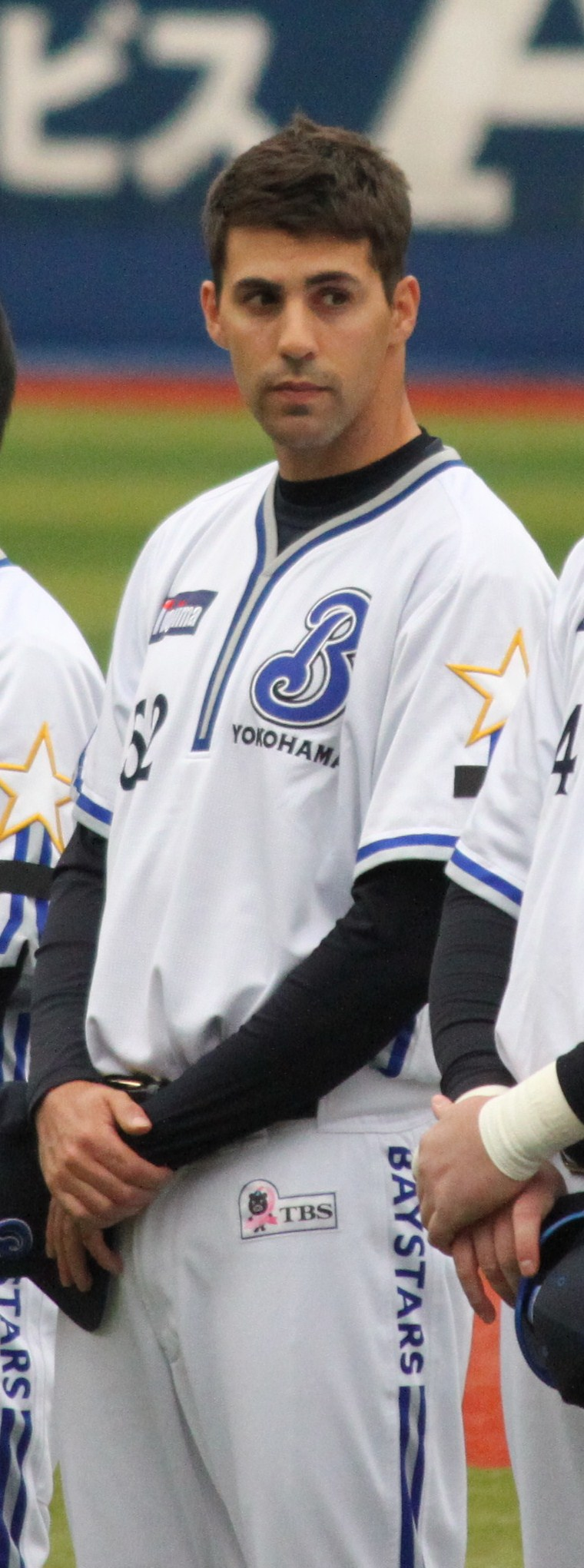 Brandon Mann, pitcher of the Yokohama BayStars, at Yokohama Stadium.